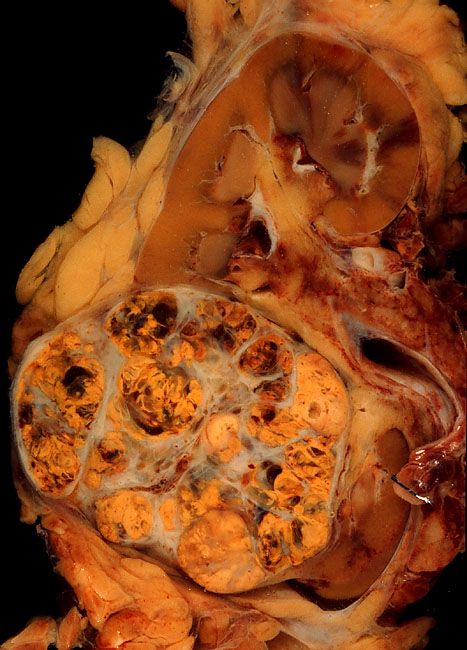 Renal cell carcinoma This 8-centimeter carcinoma of the lower pole of the kidney shows extension beyond the cortical surface, but it does not infiltrate the perinephric adipose tissue. Microscopically, it is of the clear cell type. The photo was shot on Kodak Elite transparency film, ISO 200, with a Minolta X-370 and Rokkor f/4 bellow lens.